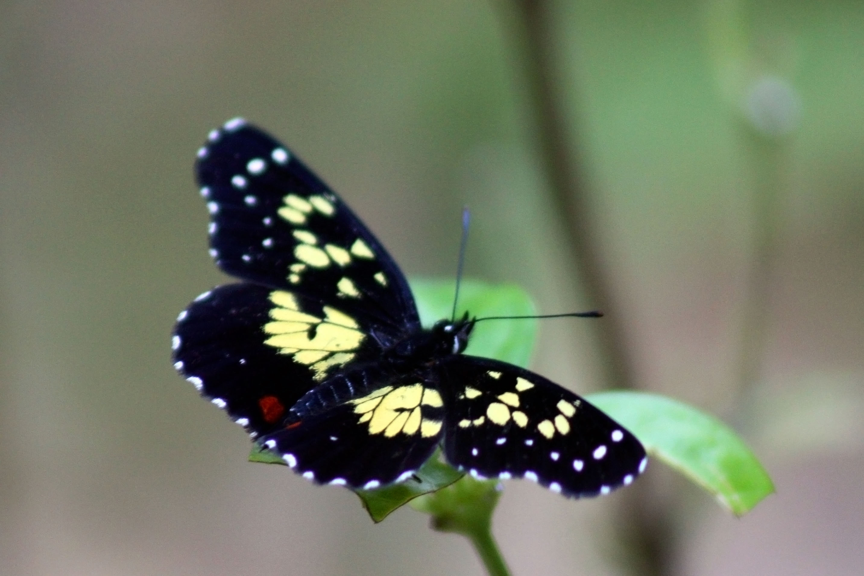 Poecile checkerspot (Chlosyne erodyle poecile), male, Costa Rica